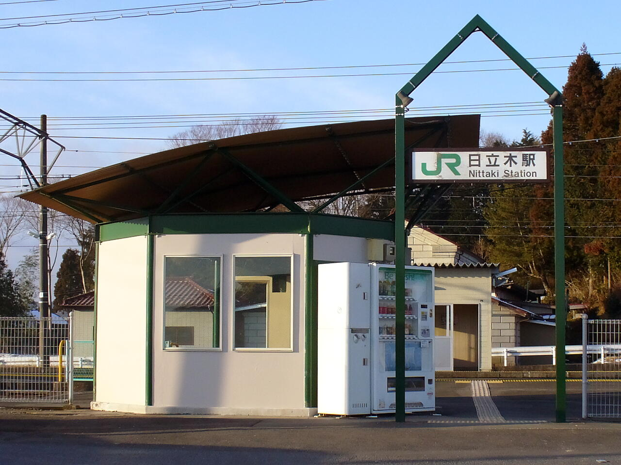 Nittaki Station on the Joban Line